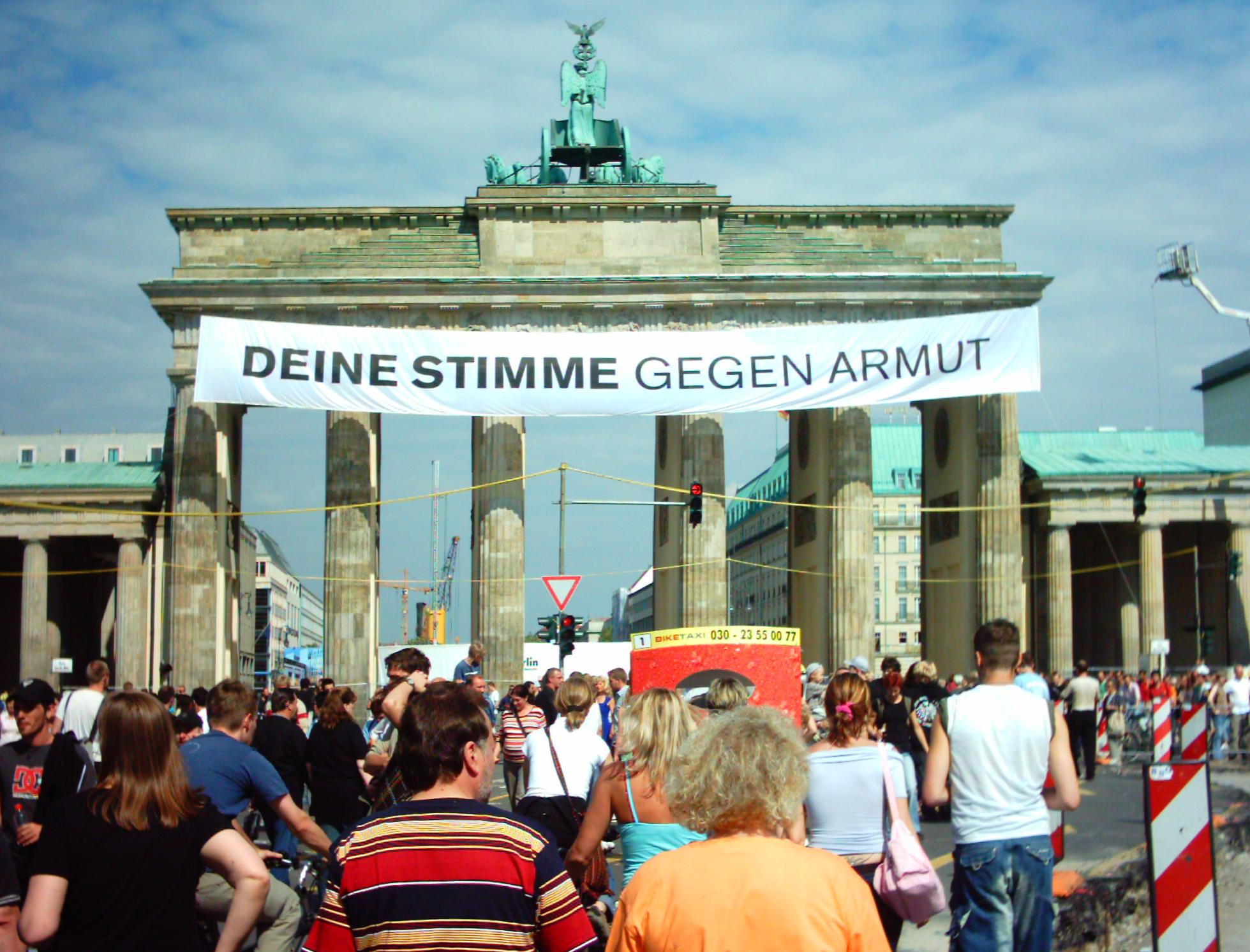 the Brandenburger Tor with a banner during Live8 festival 2005 in Berlin